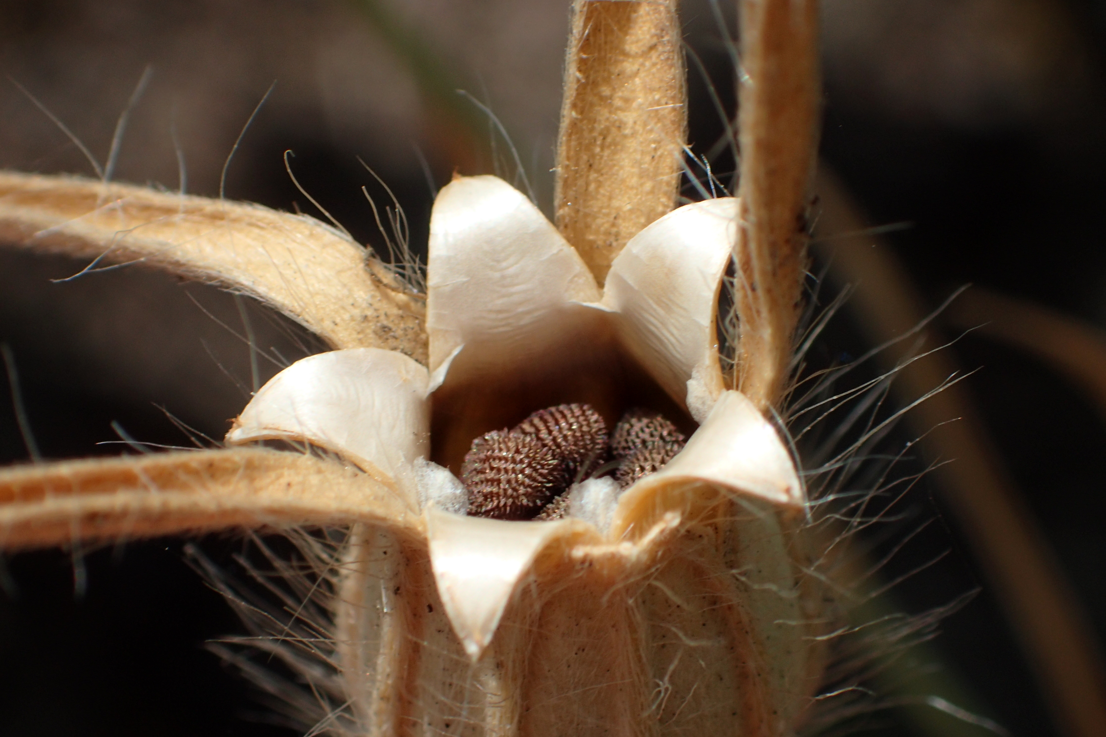 Agrostemma githago (open fruit with seeds) in PAN Botanical Garden in Warsaw